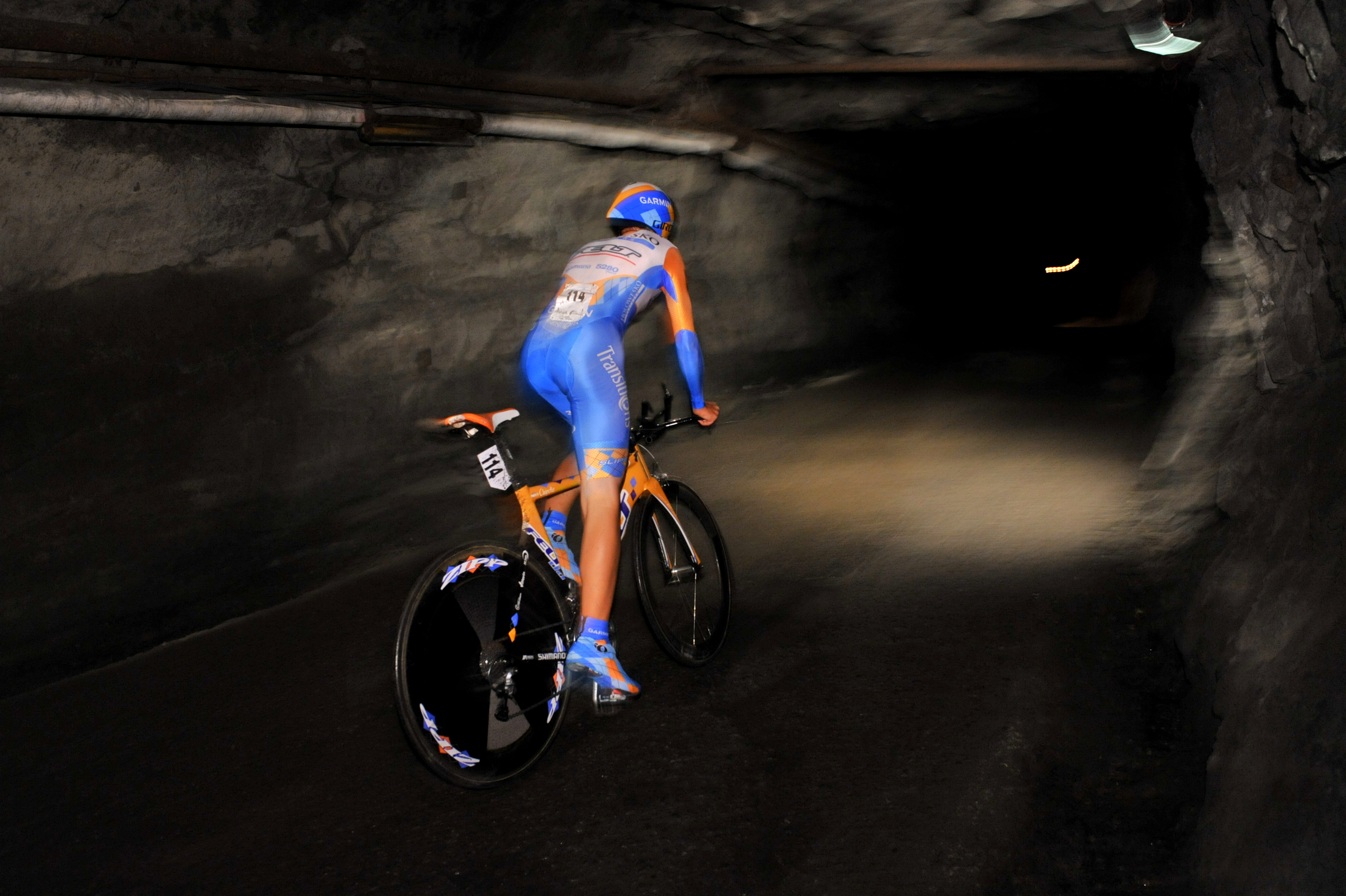 Chandler Knop Team Holowesko Partners Stage 3, Time Trial, start at 300 feet underground at a old mine, La Cité de l'Or